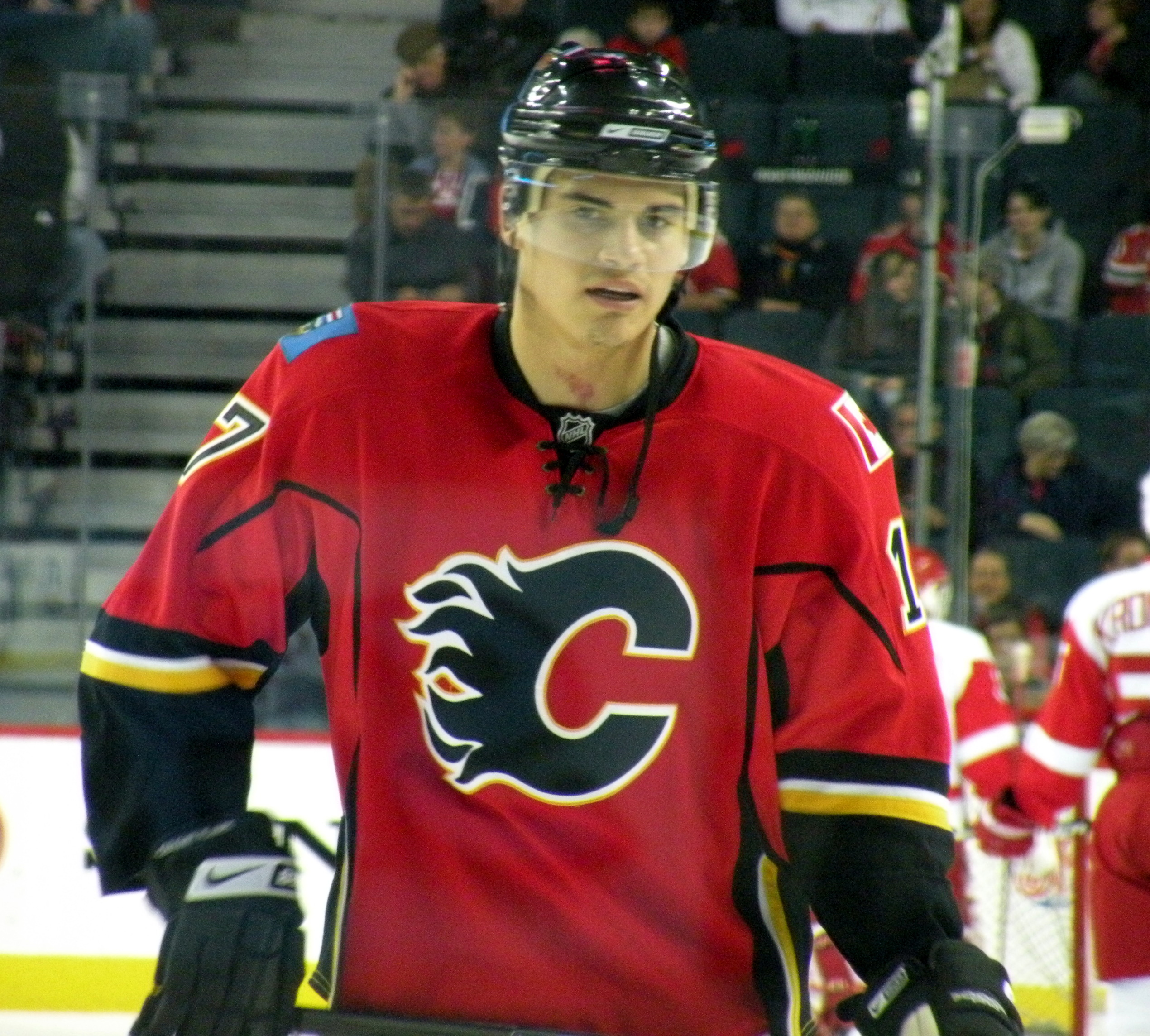 Forward Rene Bourque warming up prior to a game between the Calgary Flames and Detroit Red Wings at Calgary, November 22, 2008.